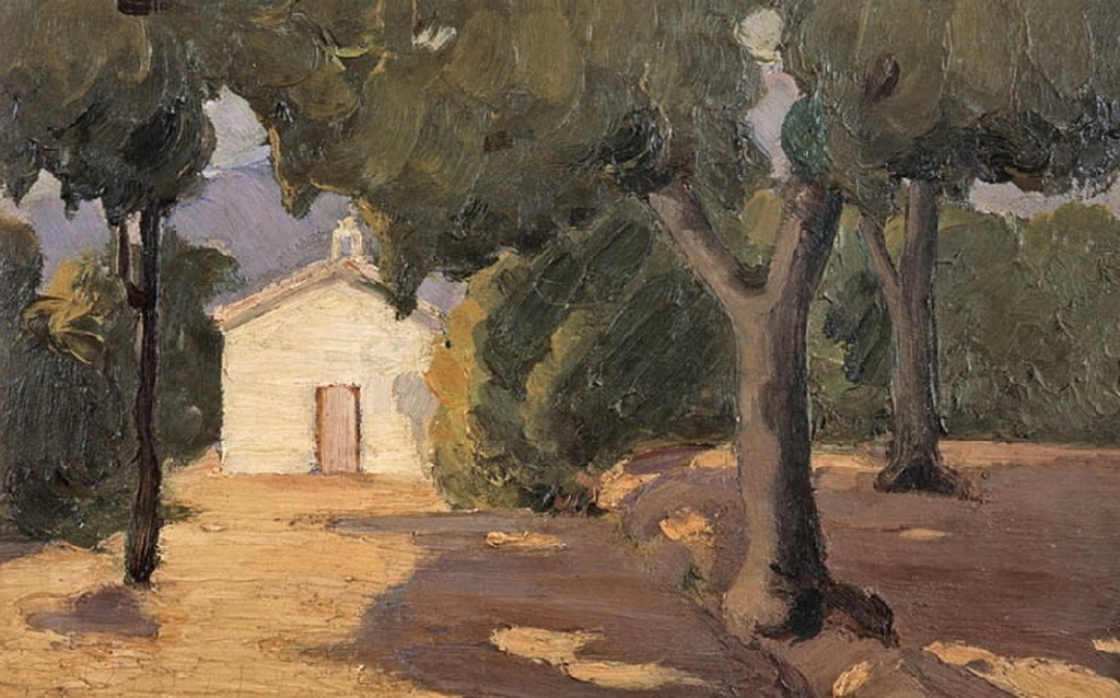 Chapel